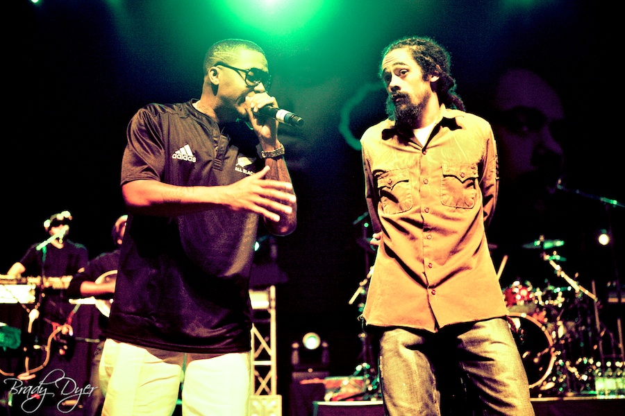 Nas & Damian Marley performing in Wellington. Nas is wearing an All Blacks Jersey recently given to him by some of the players